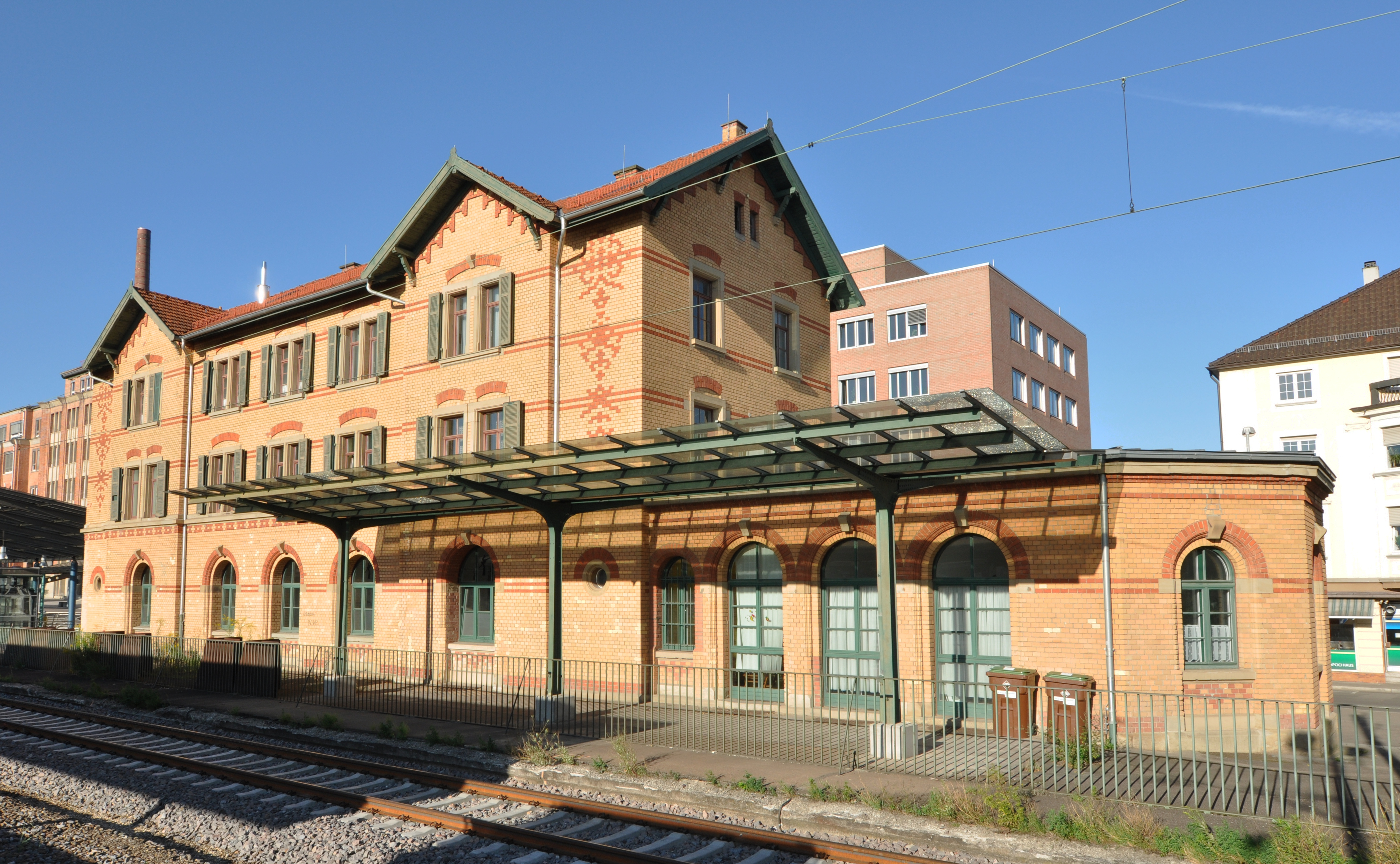 Old building on the West side of passangers' railway station in Kornwestheim